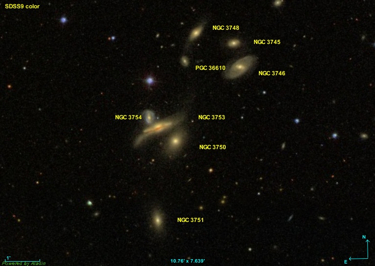 Image created using the Aladin Sky Atlas software from the Strasbourg Astronomical Data Center and SDSS (Sloan Digital Sky Survey) public data.